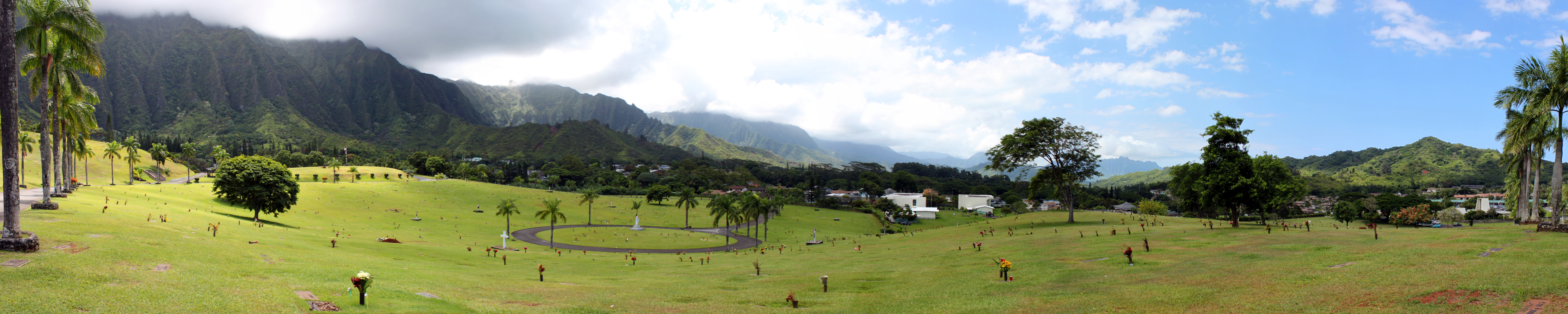 Panoramic view of the Valley of the Temples